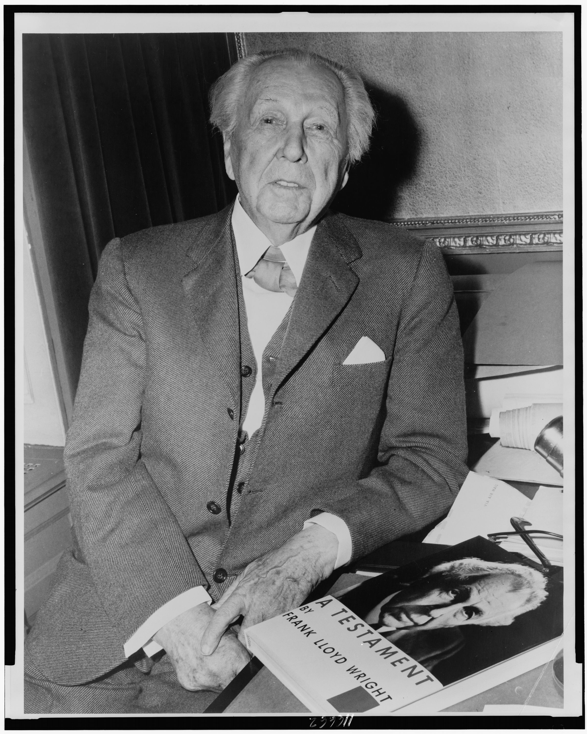 Frank Lloyd Wright, half-length portrait, seated, facing front / World Telegram & Sun photo by Ed Ford.